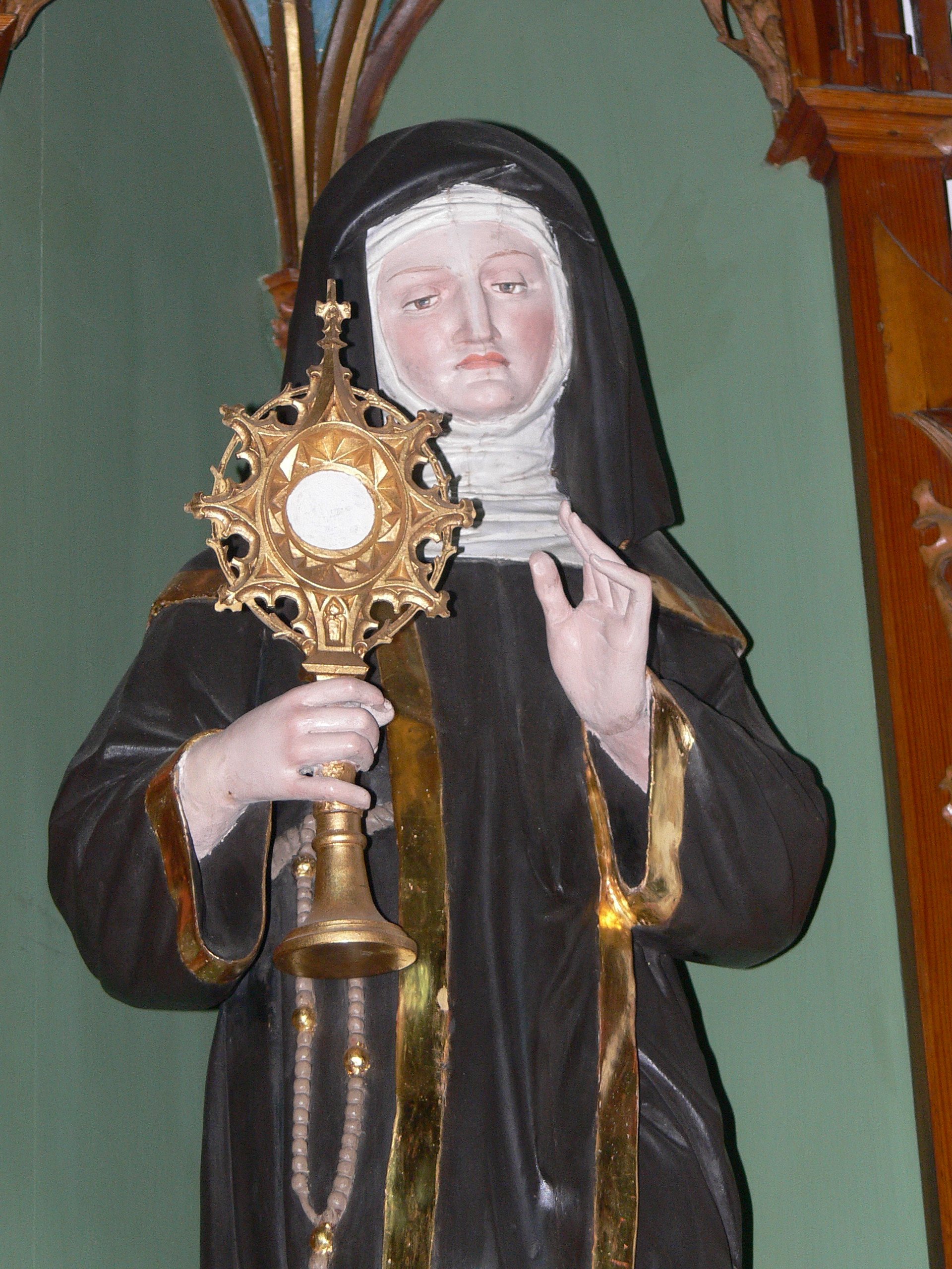 Saint Oswald parish church. Altar of the Sacred Heart of Jesus ( 1896 ): Saint Clare of Assisi.